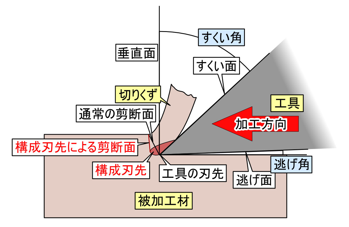 Cutting work #1